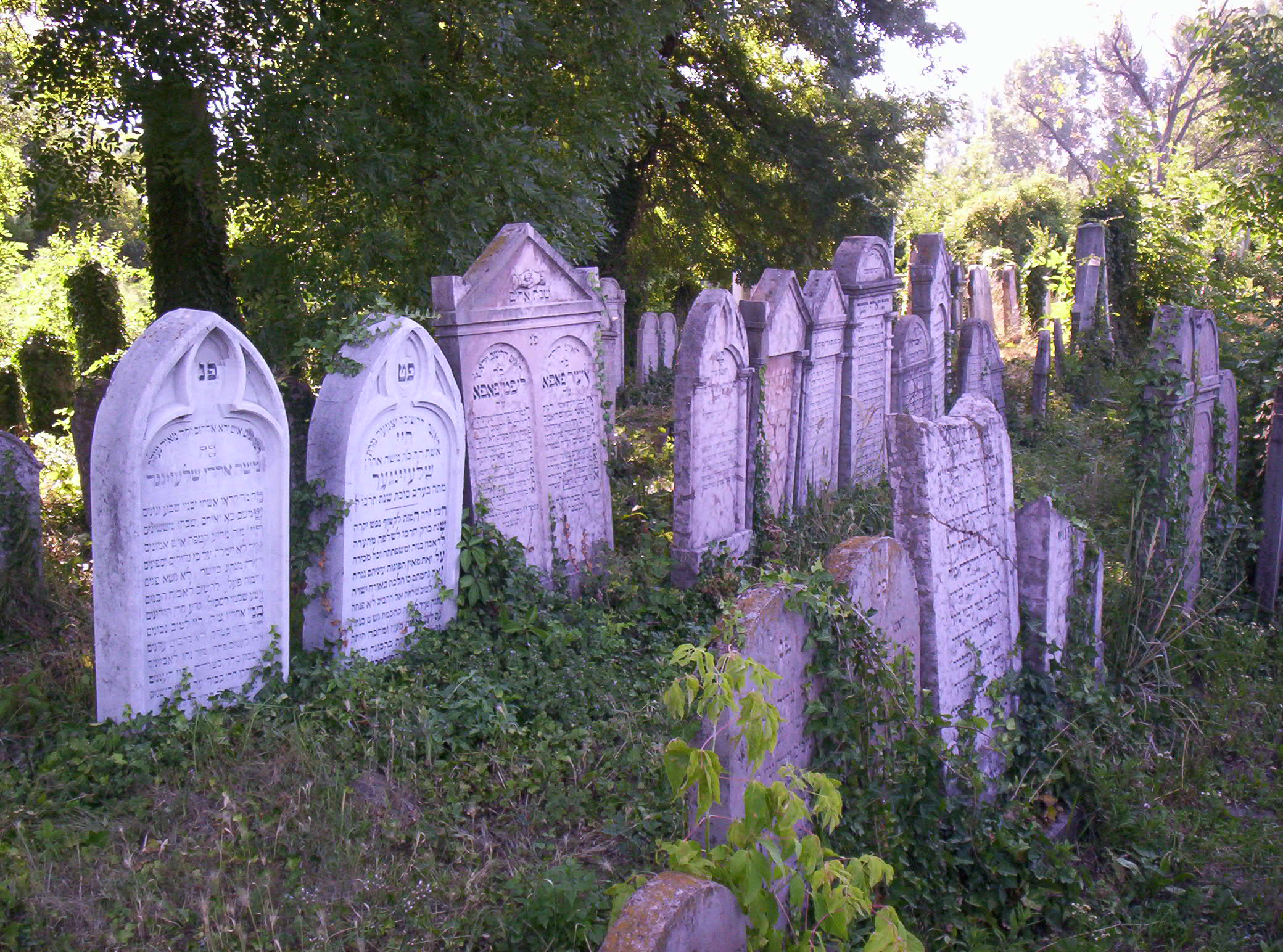 The old Jewish cemetery in Pápa, Hungary A pápai régi zsidó temető